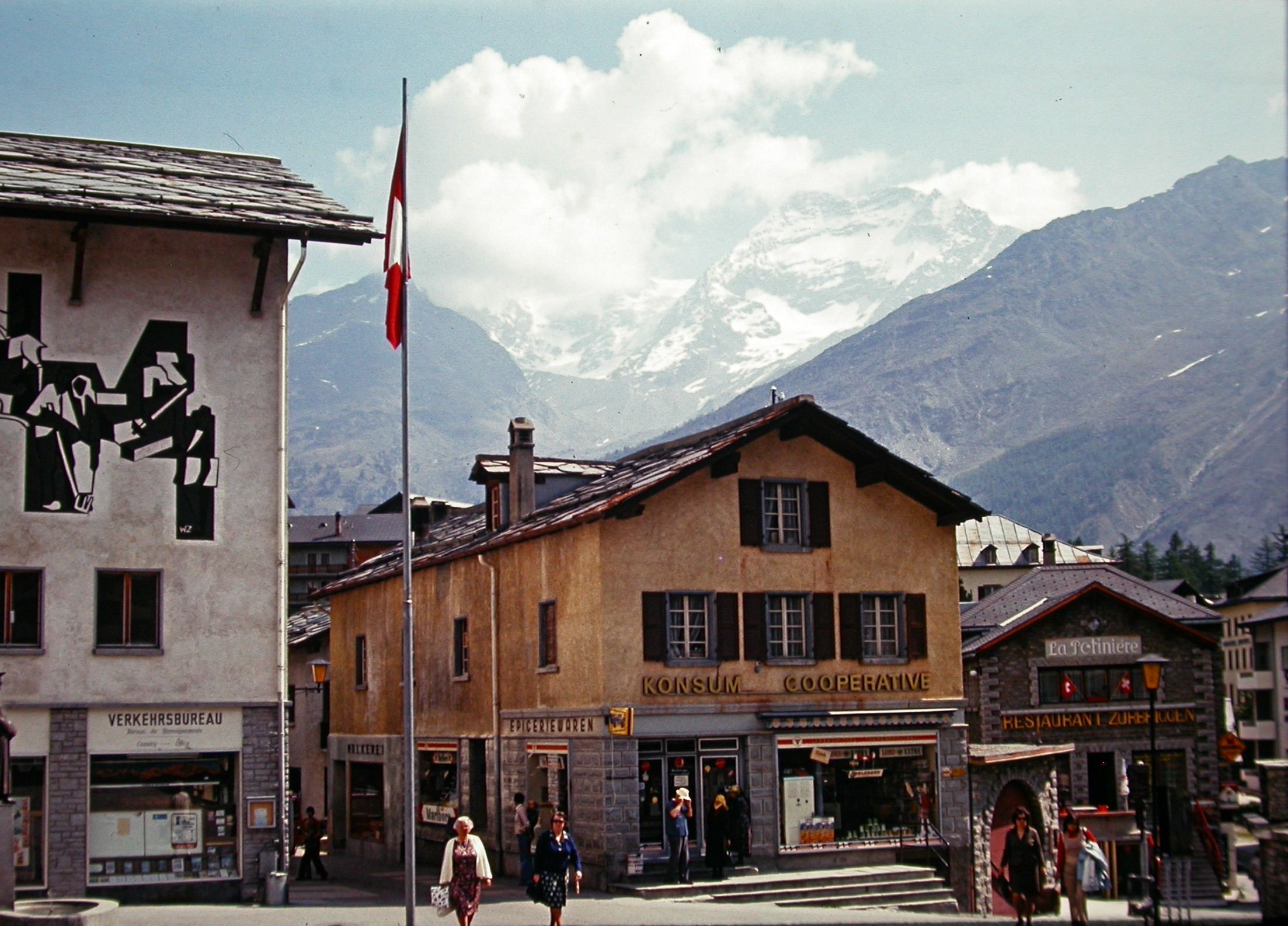 1974 Saas Fee